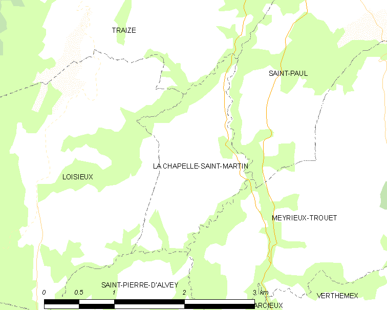 Map of French municipality